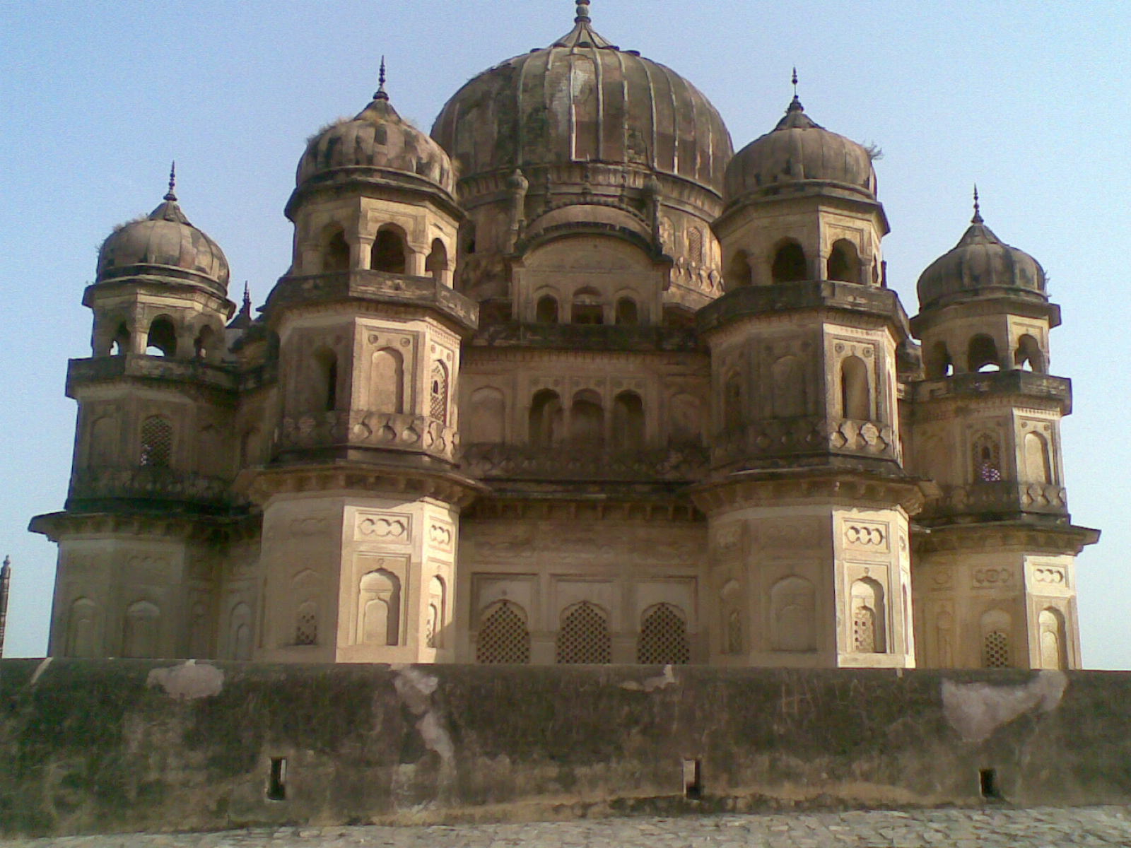 Madhya Pradesh, Chhatarsal palace in India